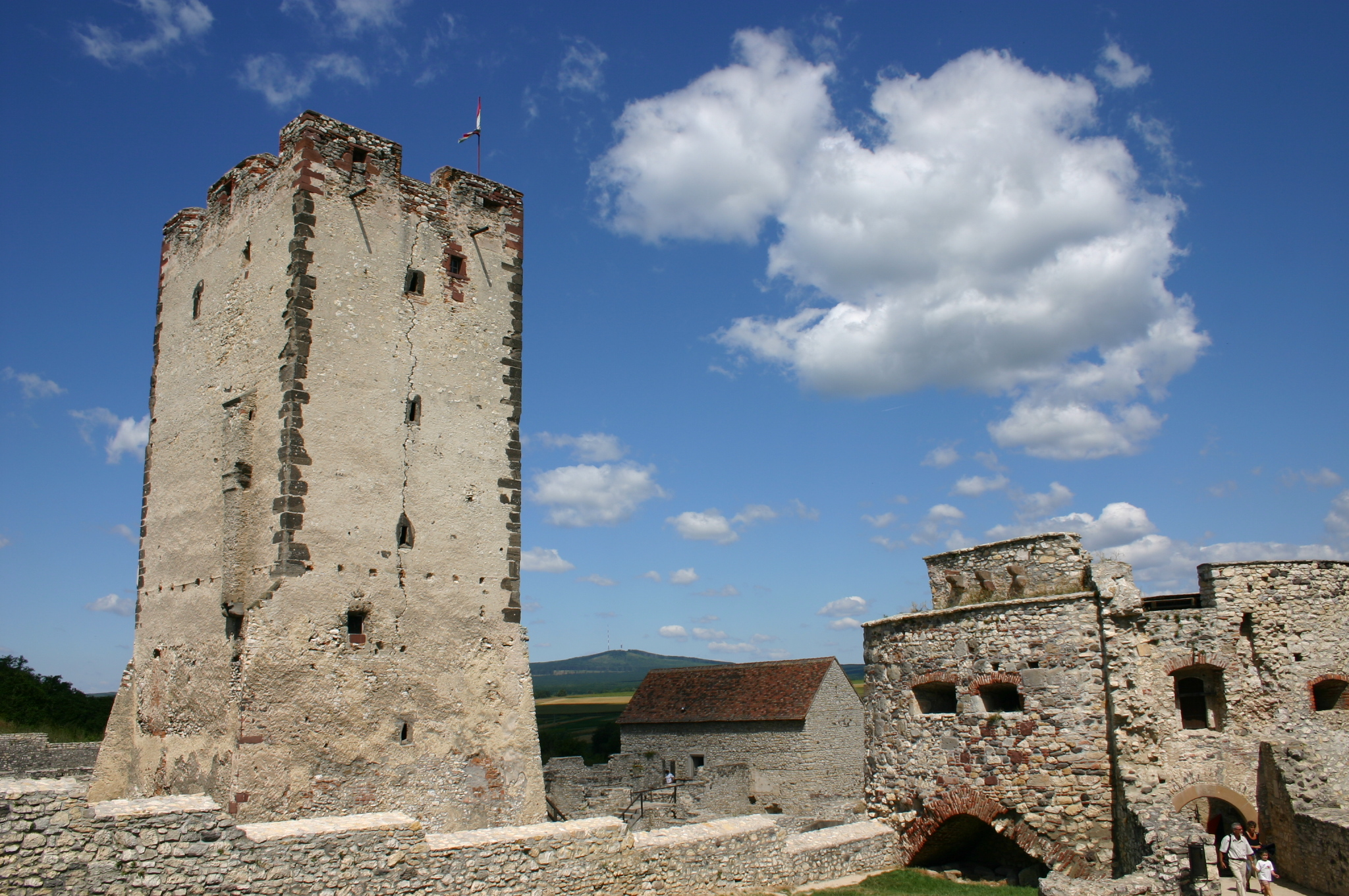 Castle of Nagyvazsony (Hungary)